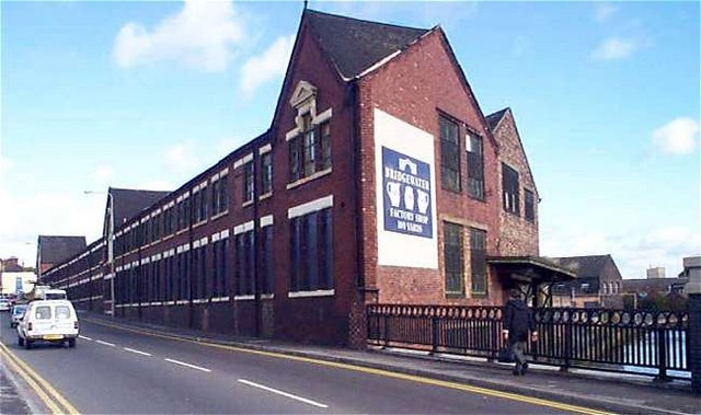 Bridgewater Pottery Works, Eastwood, Hanley Looking up Lichfield Street with the Bridgewater Pottery factory in the centre of the picture - the Caldon Canal is visible between the railings of the bridge on the right of the picture.